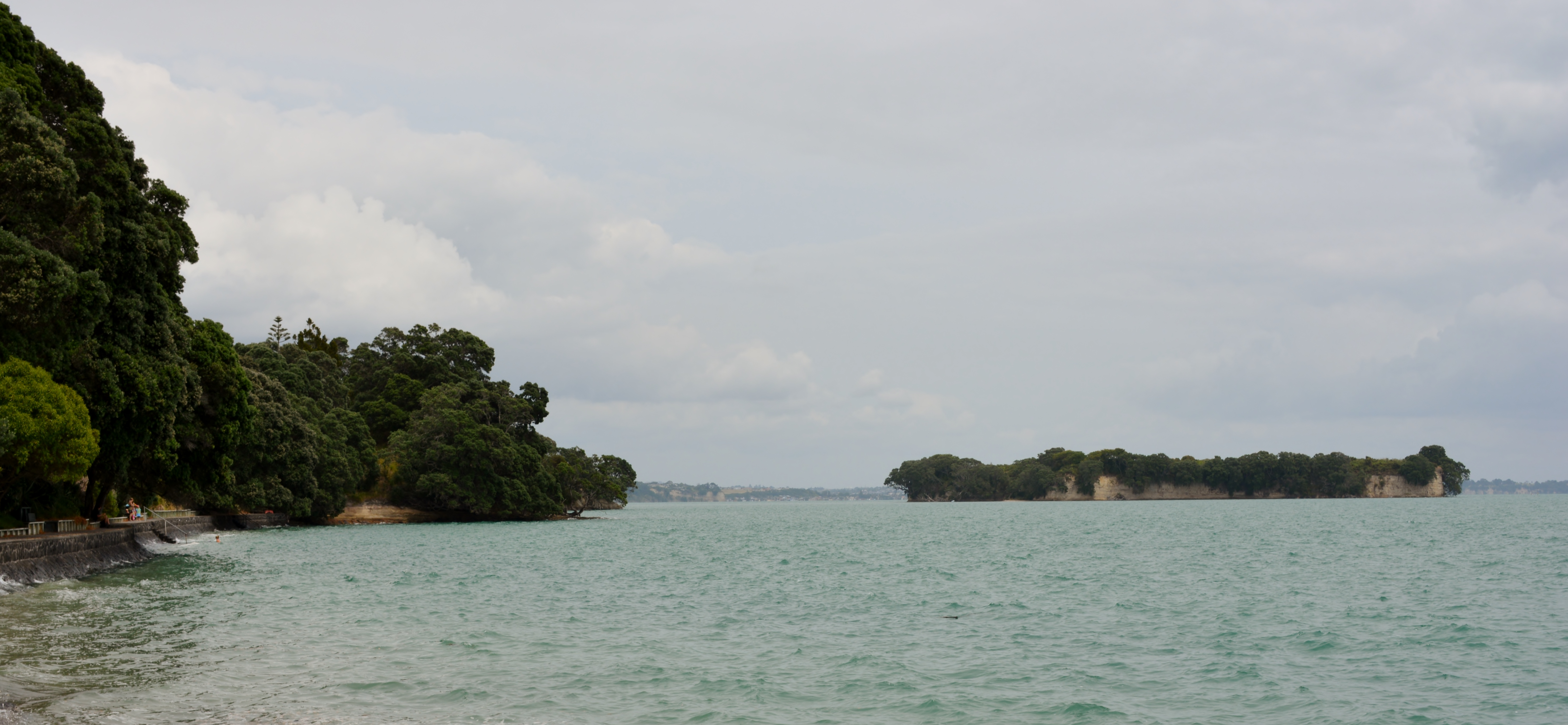 With a King Tide